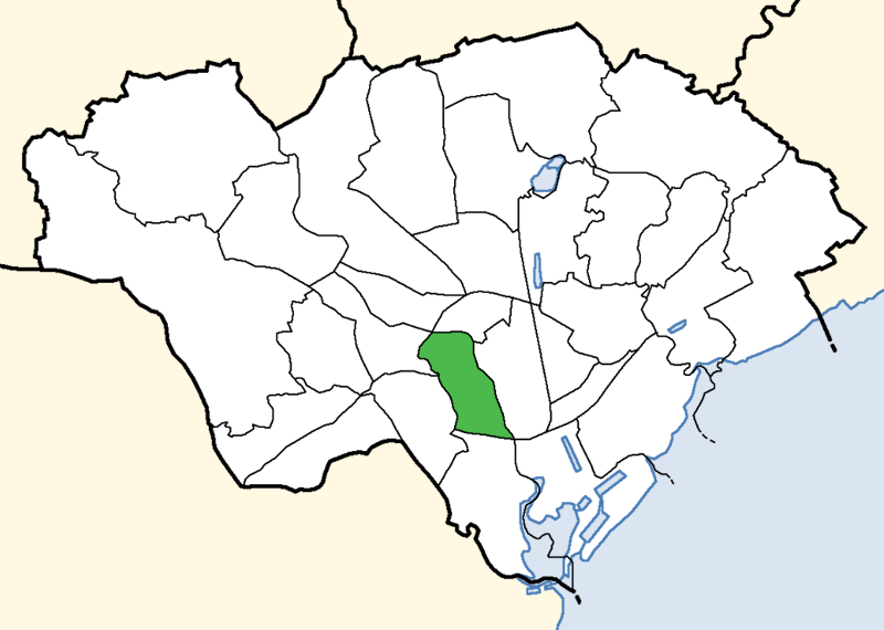 Location map showing electoral ward of Grangetown within Cardiff, Wales